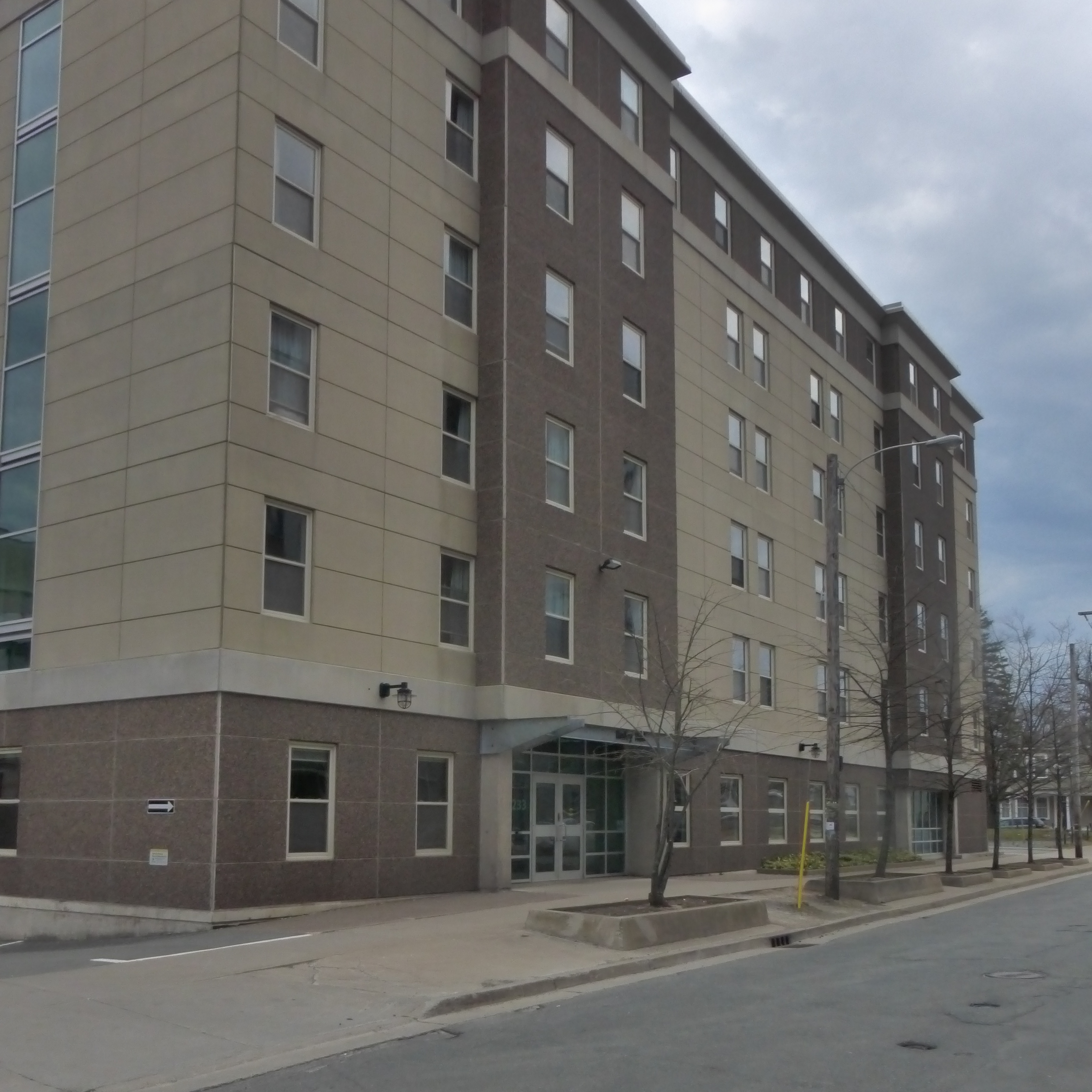 Robert Risley Hall (residence), Dalhousie University